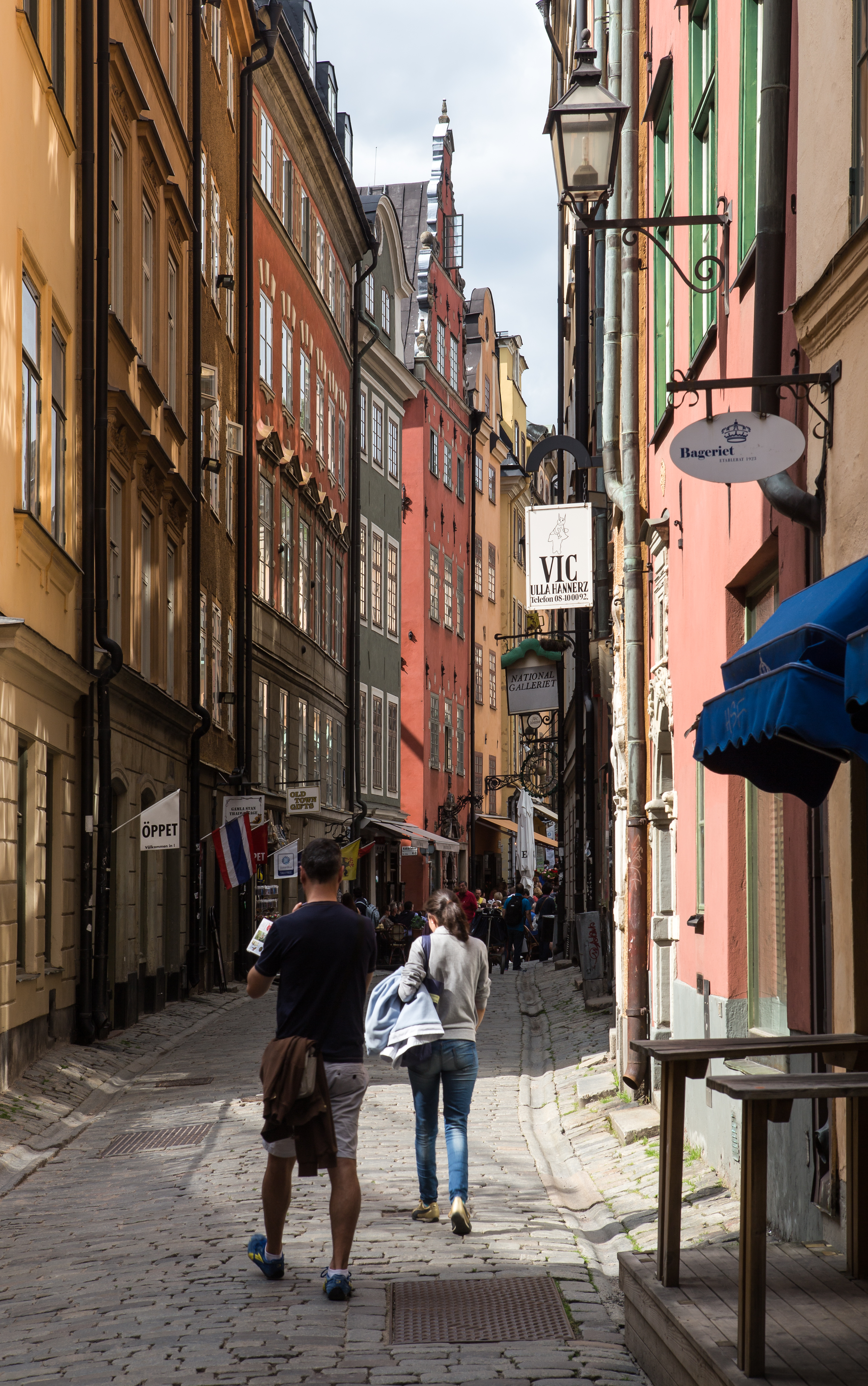 Skomakargatan (Shoemaker Street) in the Old Town of Stockholm